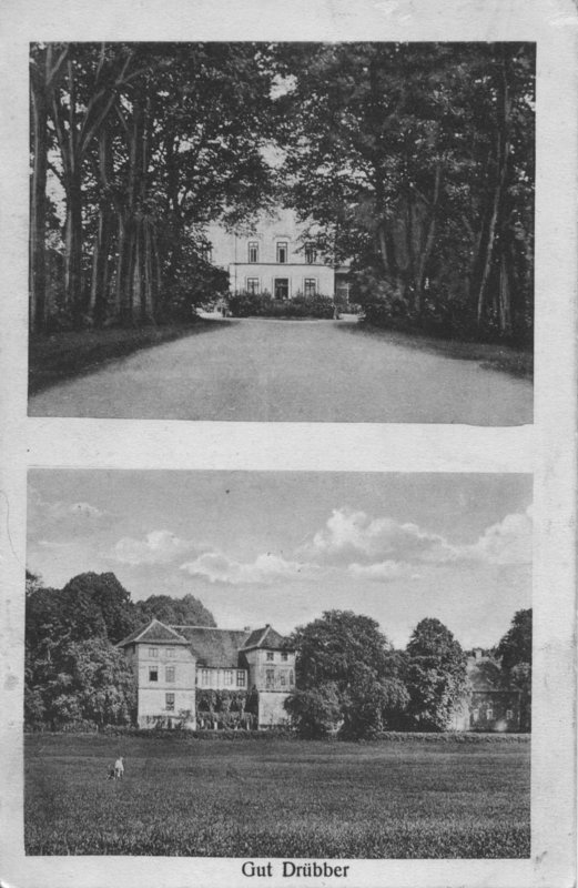 Old Postcard 1914 of Manison Druebber (von Ramdohr)